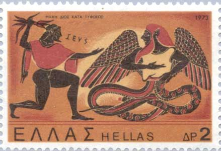 Zeus fighting Typhon greek stamp